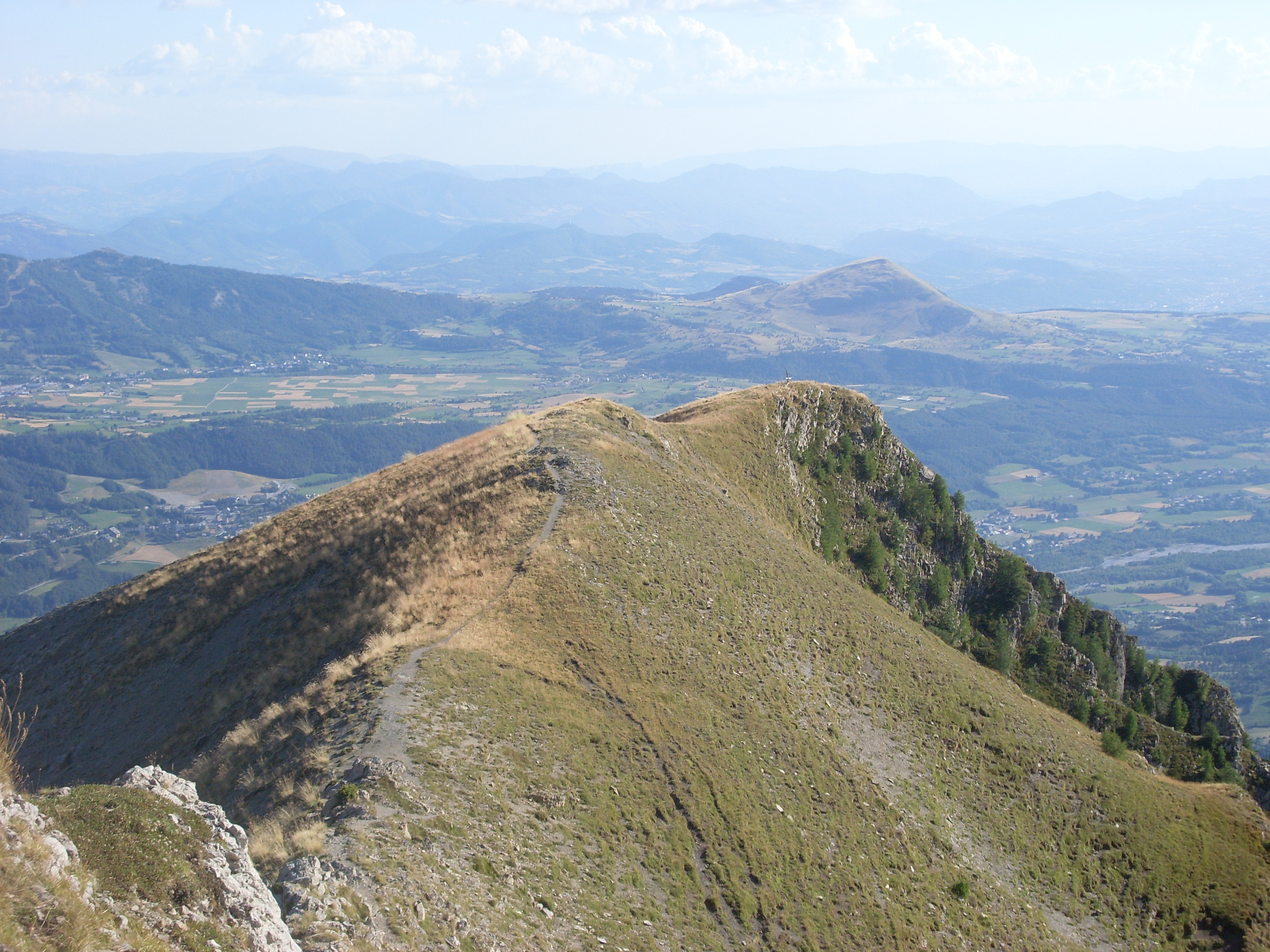 vue du sommet du palastre